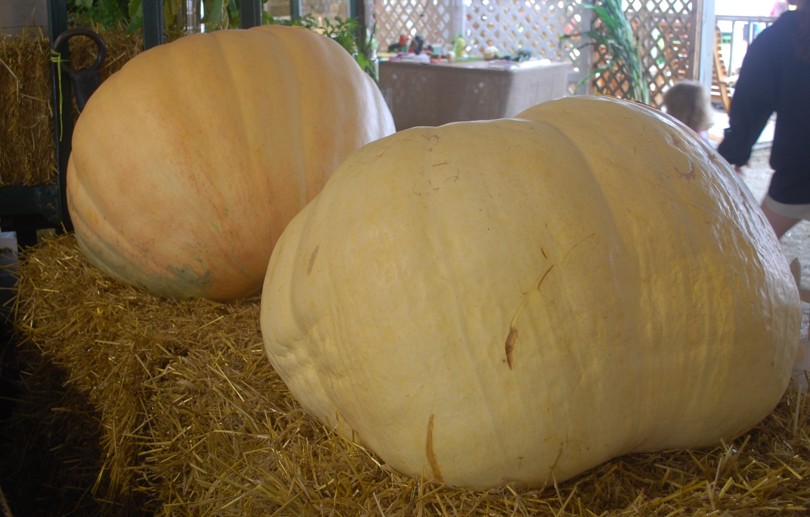 Two Big Max pumpkins (fruit of Cucurbita maxima) at the 2009 Dutchess County, New York county fair.